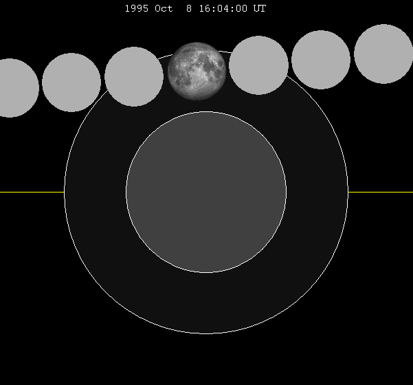 October 1995 lunar eclipse chart of moon's penumbral lunar eclipse path through the earth's shadow. thumb